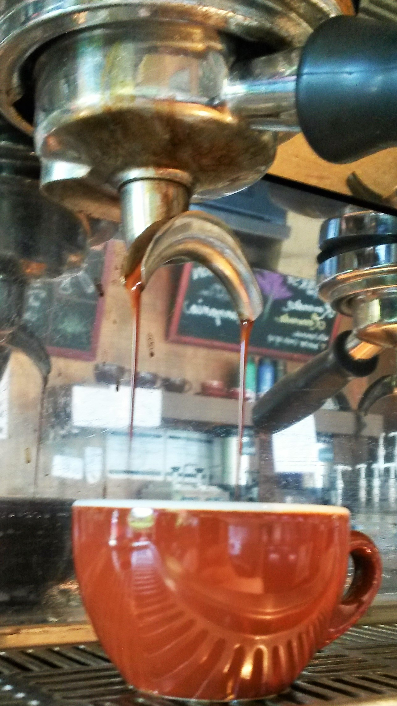 Espresso being poured into a demitasse